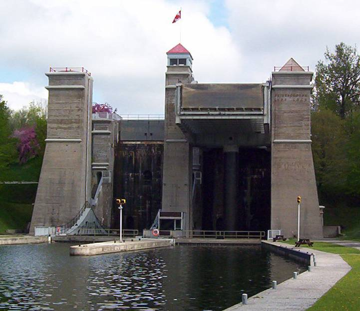 Peterborough Lift Lock on the Trent River near Peterborough, Ontario